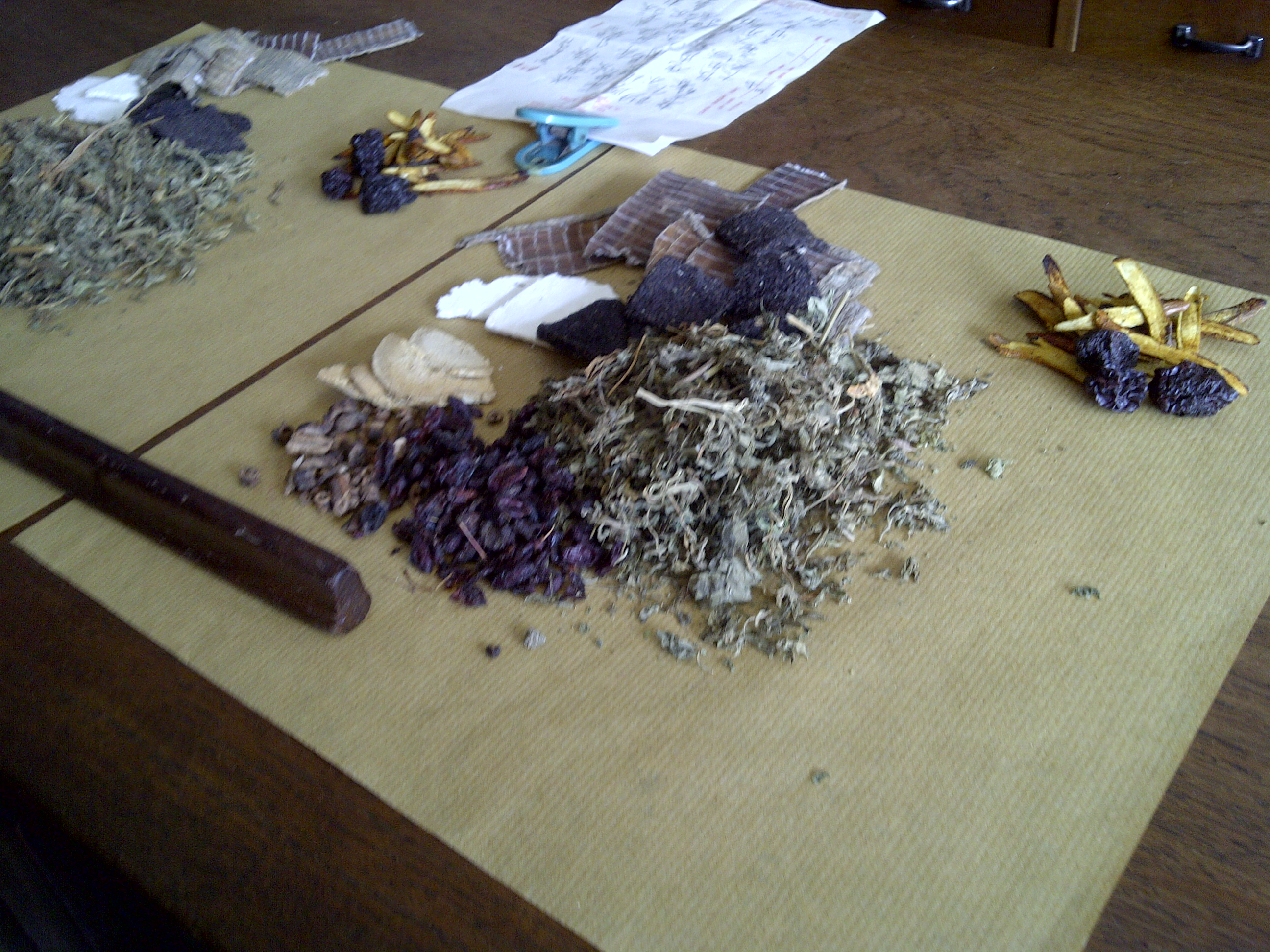 The Chinese traditional medicine at one of Chinese traditional medicine shop at Jagalan Road, Surabaya, Indonesia.